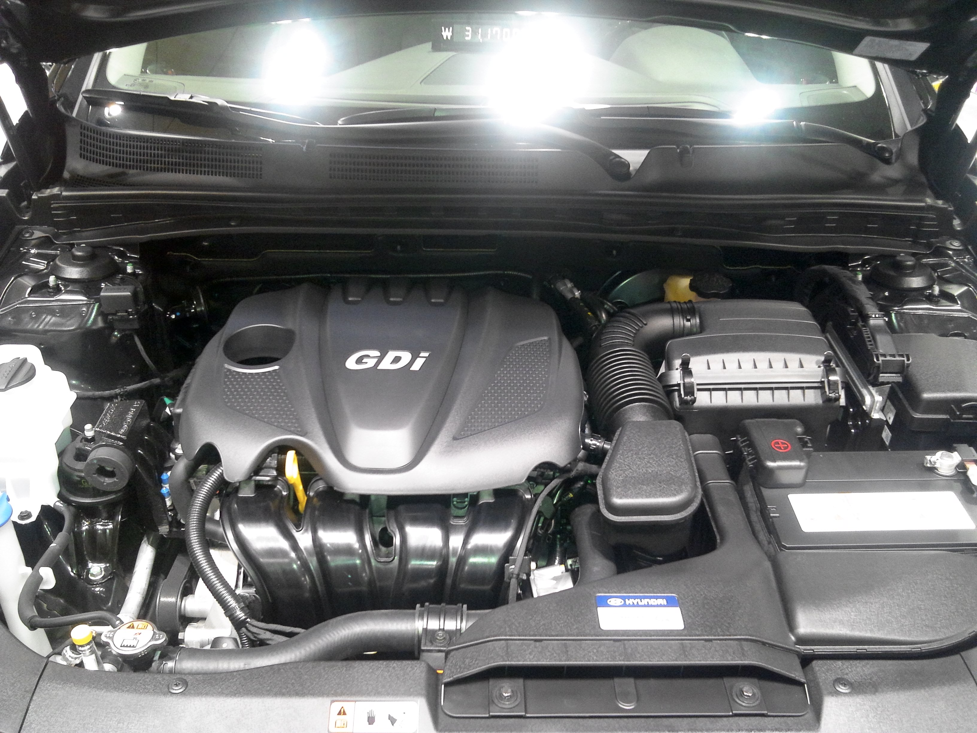 Engine room of Hyundai Grandeur.